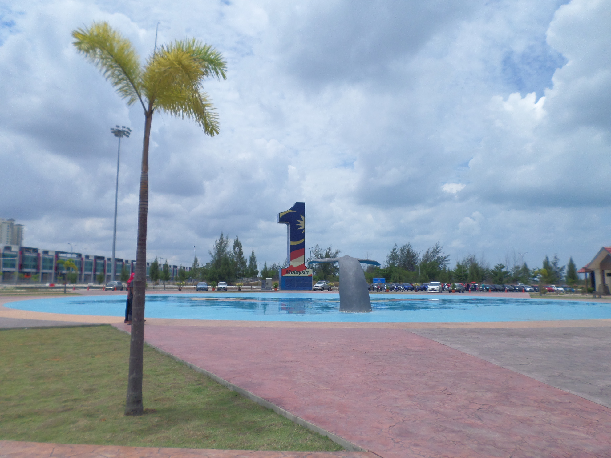 1Malaysia Square, Klebang, Central Melaka, Melaka, MalaysiaBahasa Melayu: Dataran 1Malaysia, Klebang, Melaka Tengah, Melaka, Malaysia